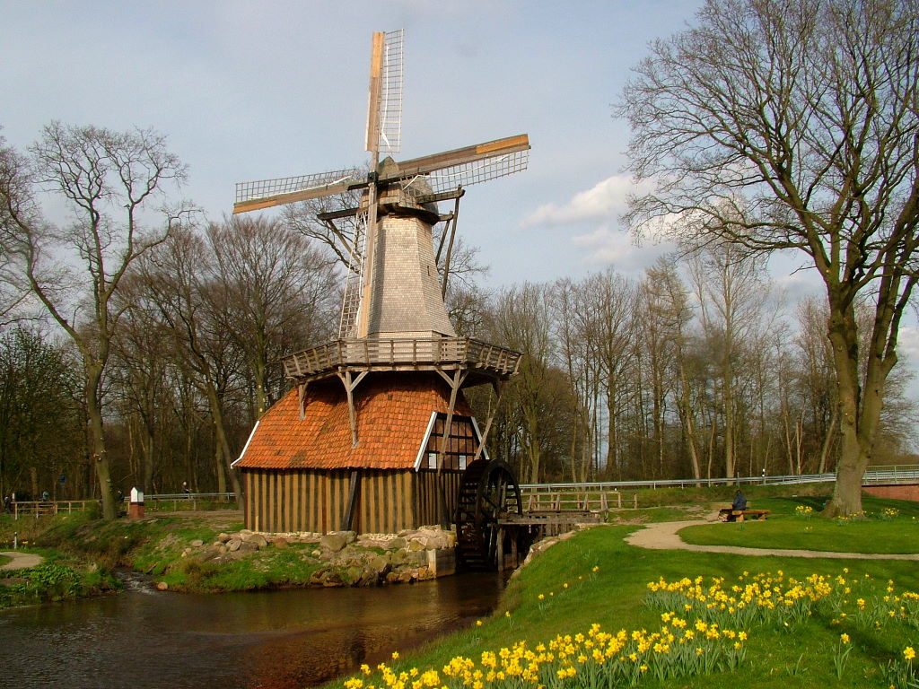 Combined Windmill and Watermill in Hueven, Emsland, Germany, after its restoration in April 2007